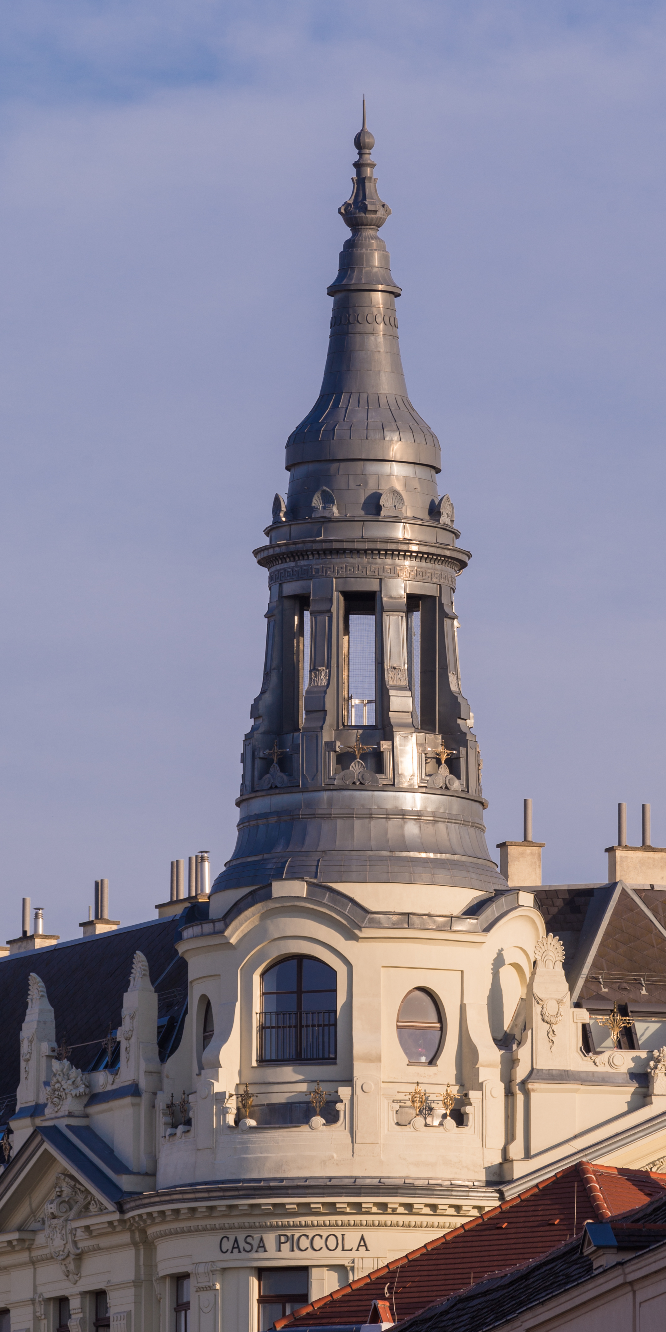 Casa Piccola at the Mariahilferstraße, Vienna